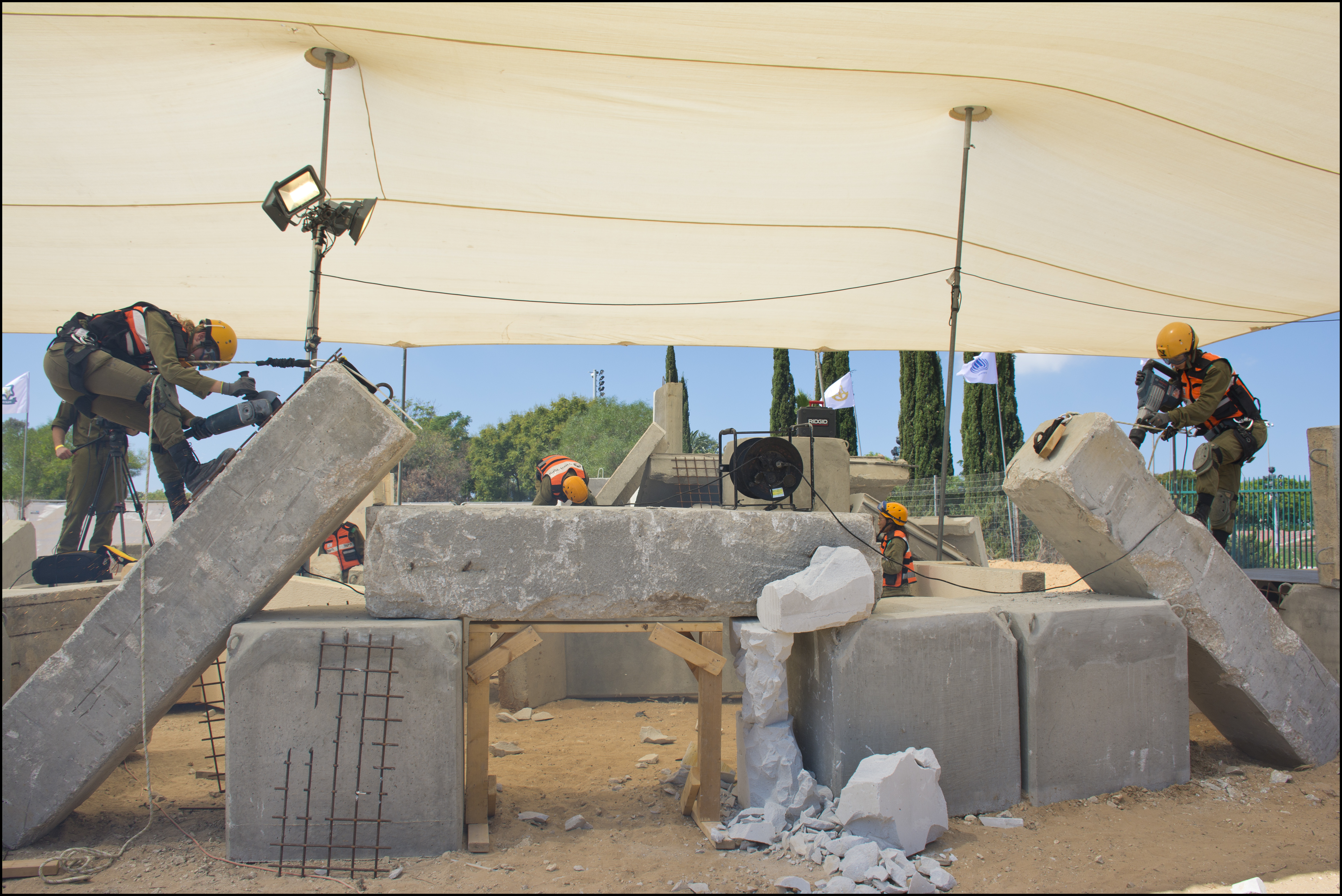 Home Front Command - Rescue Operations Division demonstrate how to save trapped humans under debris, Our IDF 70, Israel